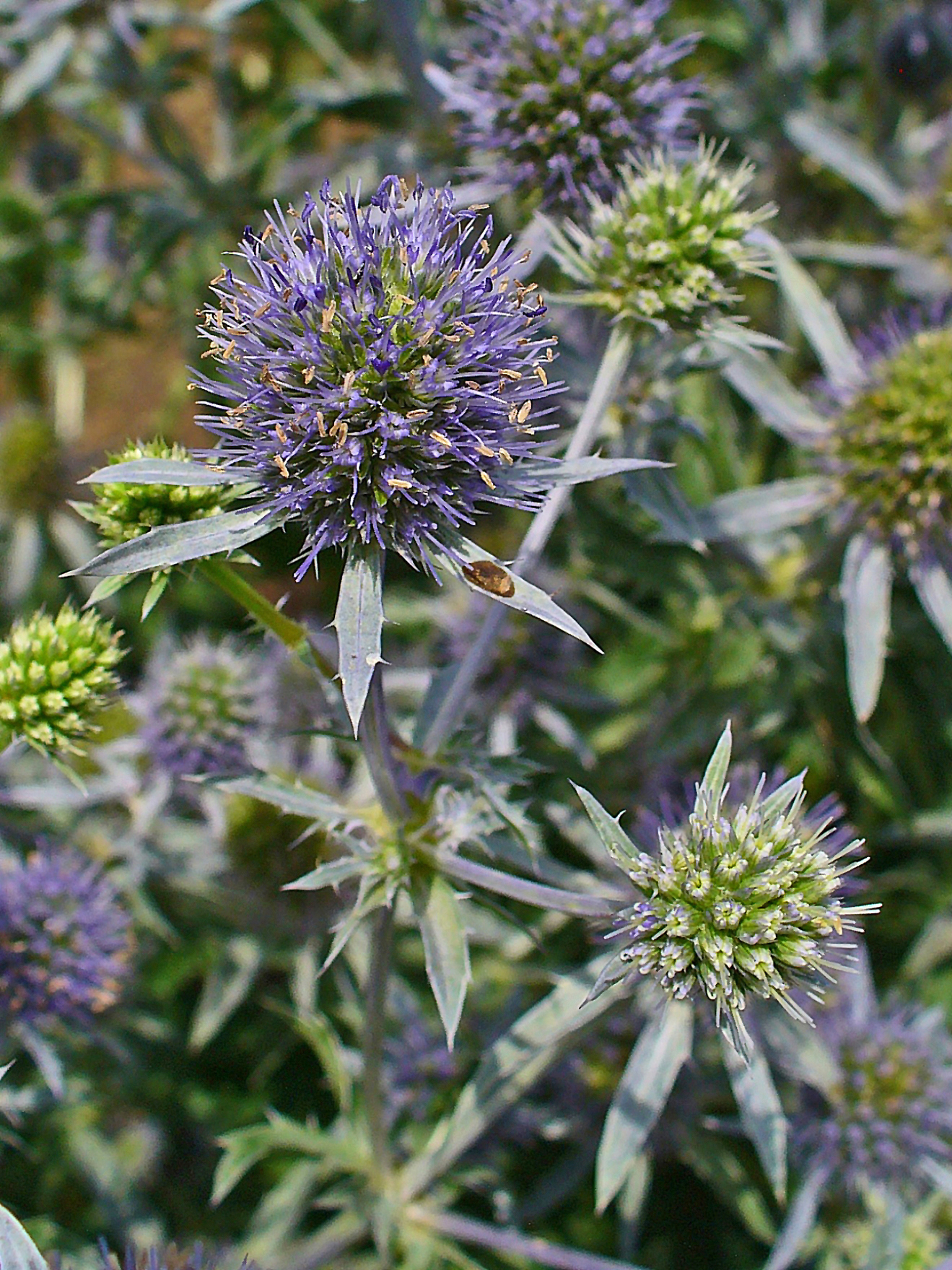 Eryngium planum, Apiaceae, Blue Eryngo, inflorescence. The root is used in homeopathy as remedy: Eryngium planum (Ery-p.)